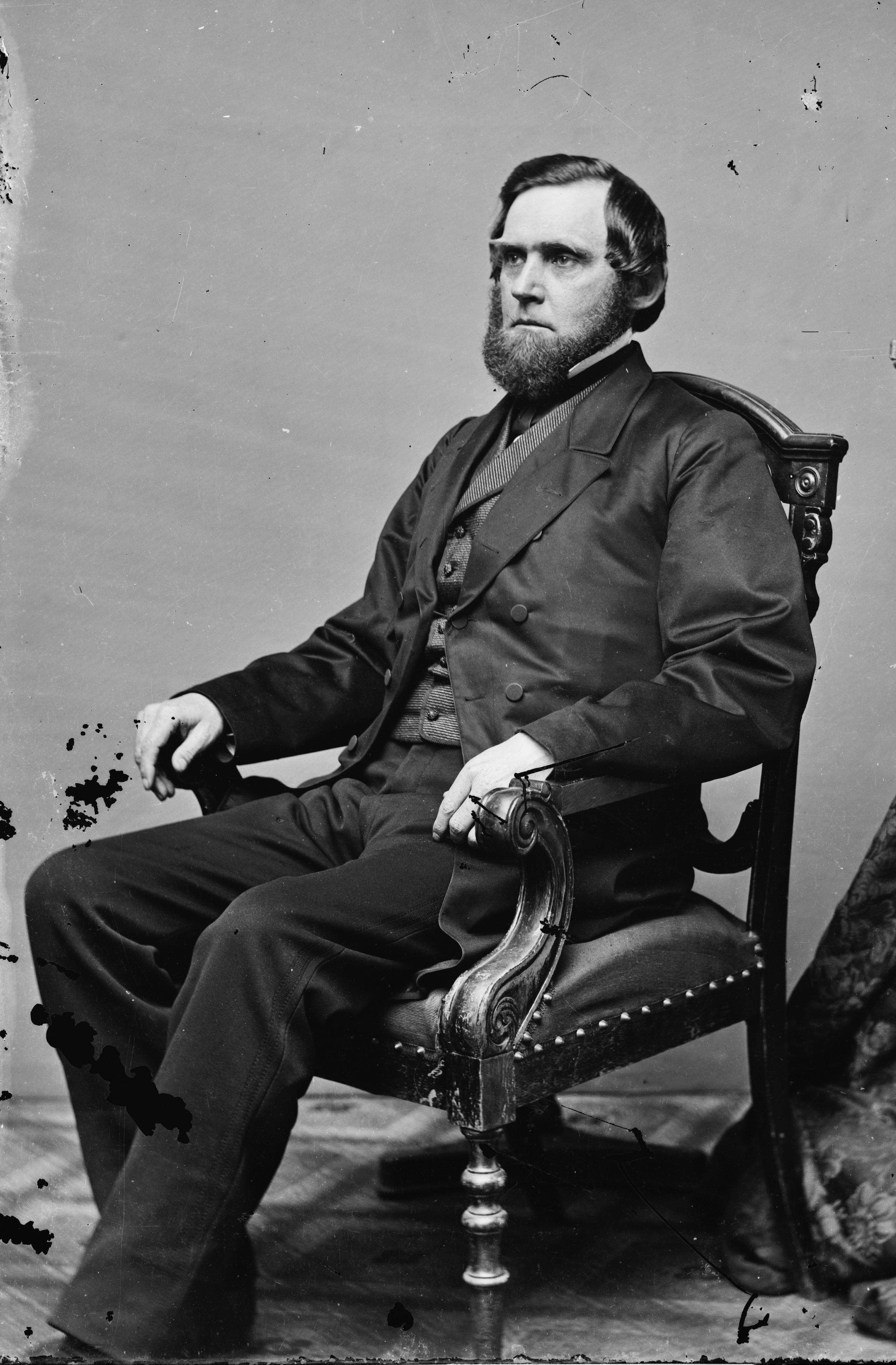 Emerson Etheridge. Library of Congress description: "Emerson Etheridge"